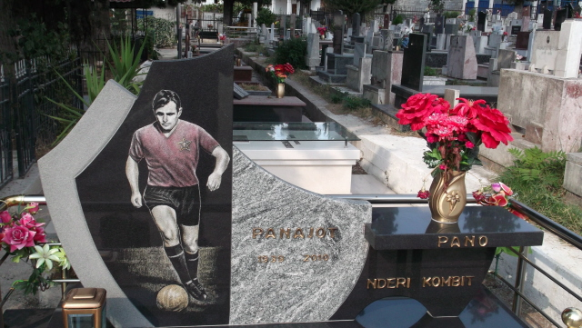 The grave of Albanian footballer Panajot Pano, Sharre cemetery, Tirana